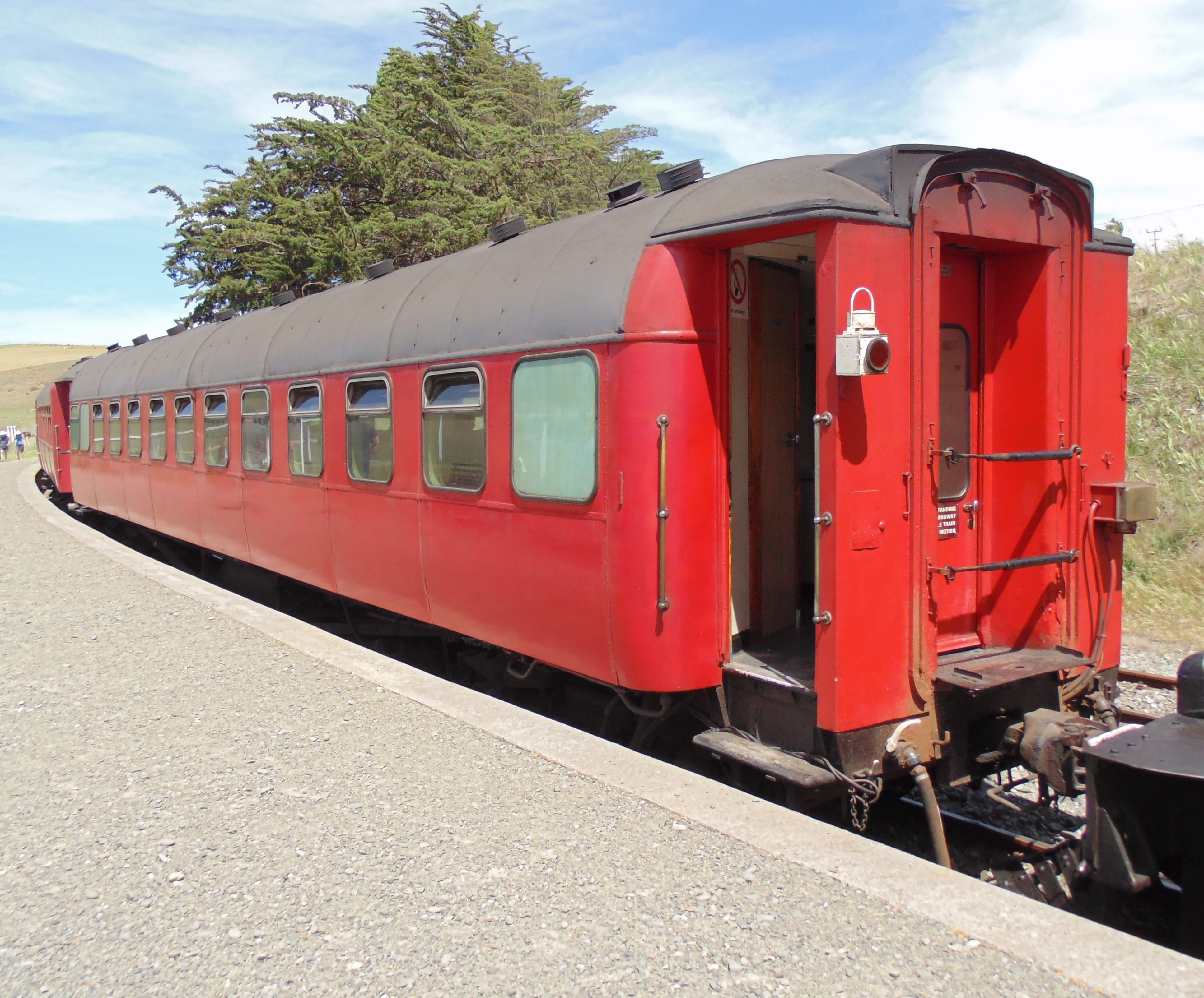 TrainboyMBH